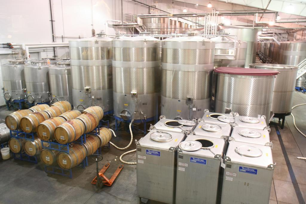 Wine fermentation tanks and oak barrels at a winery.